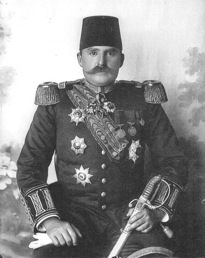 Essad Pasha Toptani in Shkodër in around 1908 in his police commandant uniform[1]